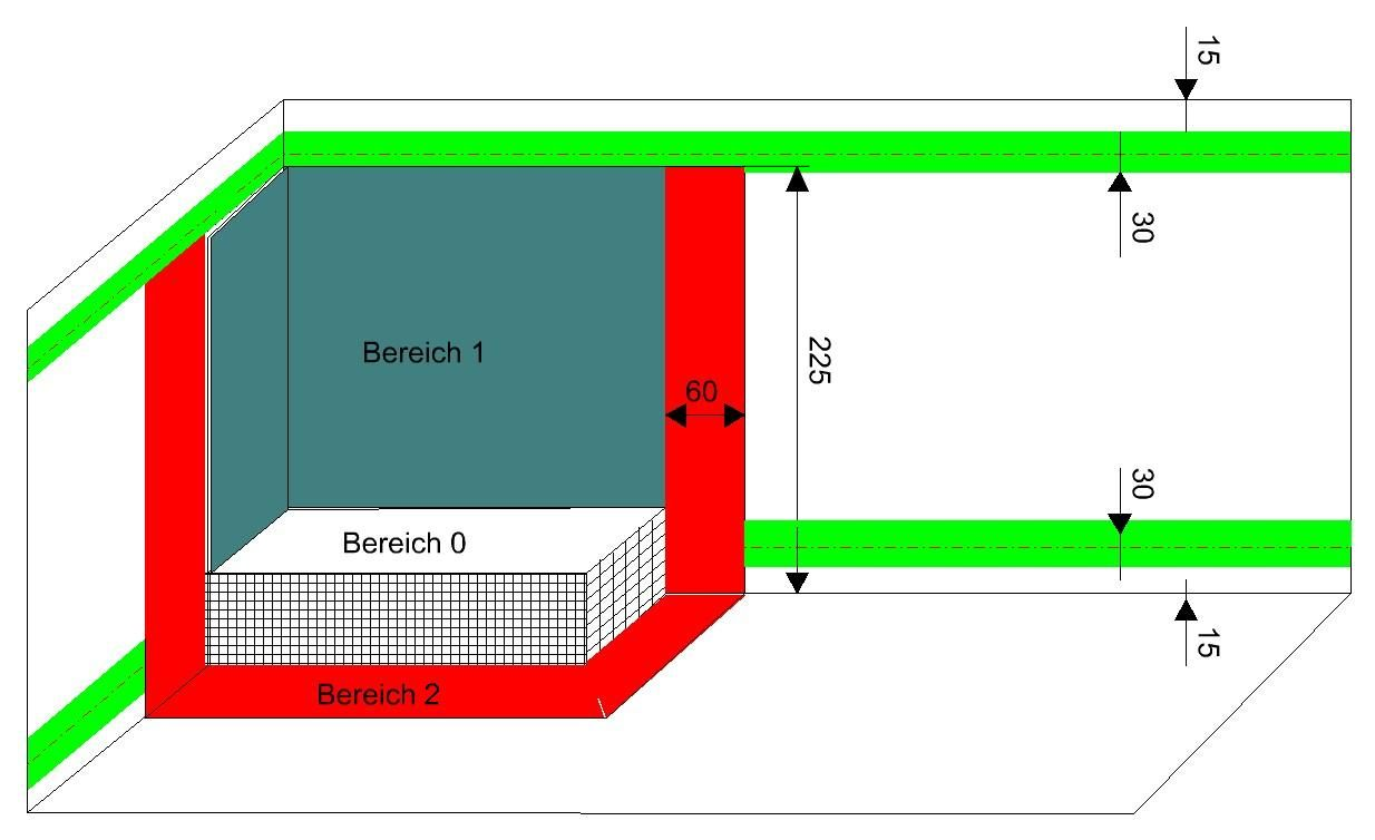 Сode of electrical wiring in bathroom with allowed locations for installation. NB! All circuits in bathroom must be protected by RCD/GFCI!